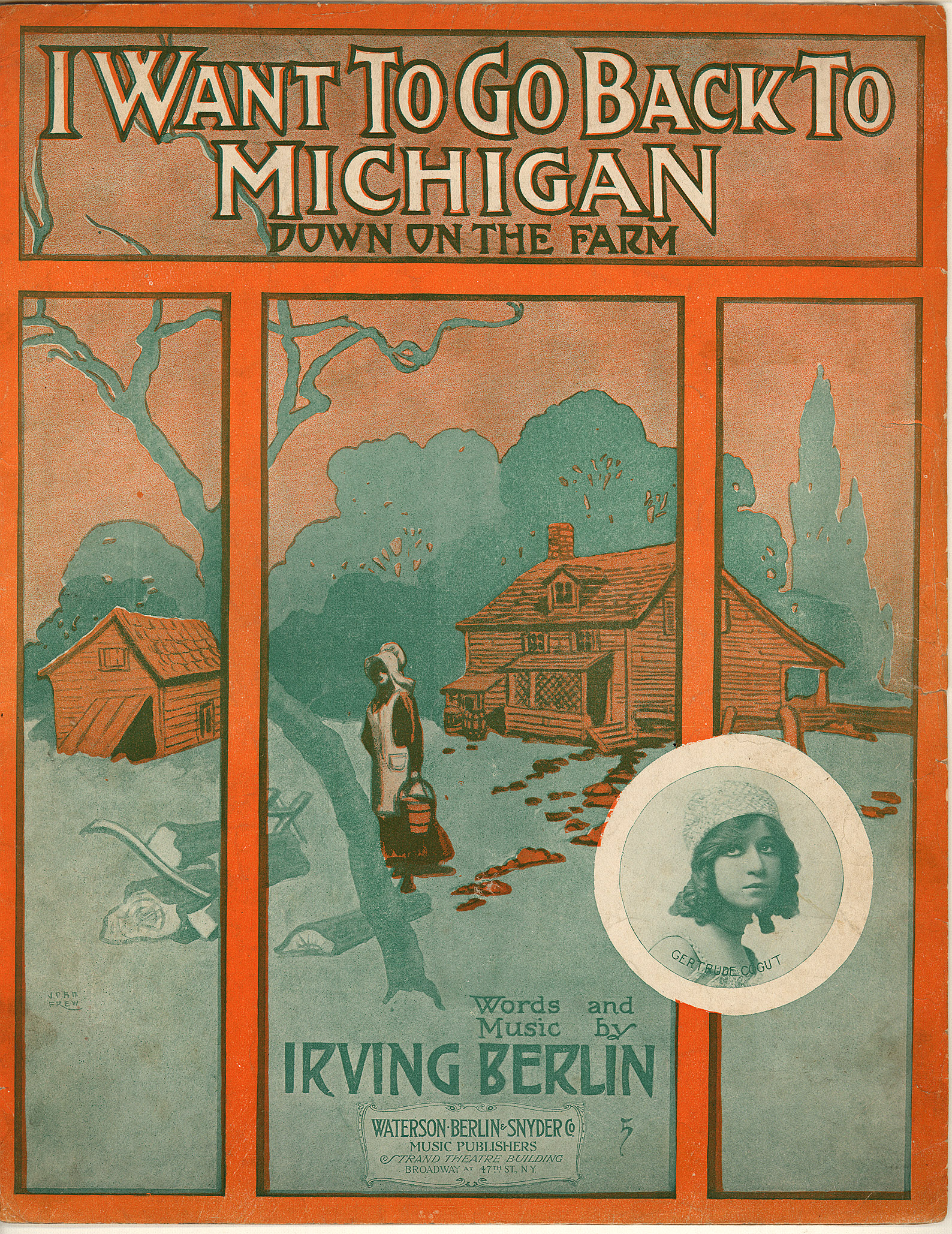 Cover page to "I Want to Go Back to Michigan", a song by Irving Berlin (1st ed.)